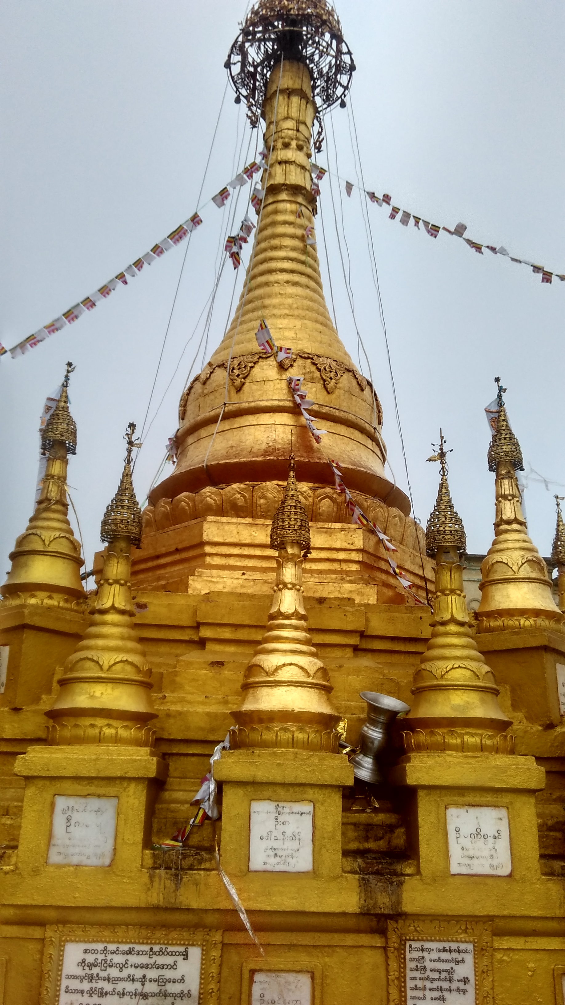 Pagoda at Popa မြန်မာဘာသာ: ပုပ္ပါးတောင်ပေါ်ရှိ စေတီတော်တစ်ဆူ။